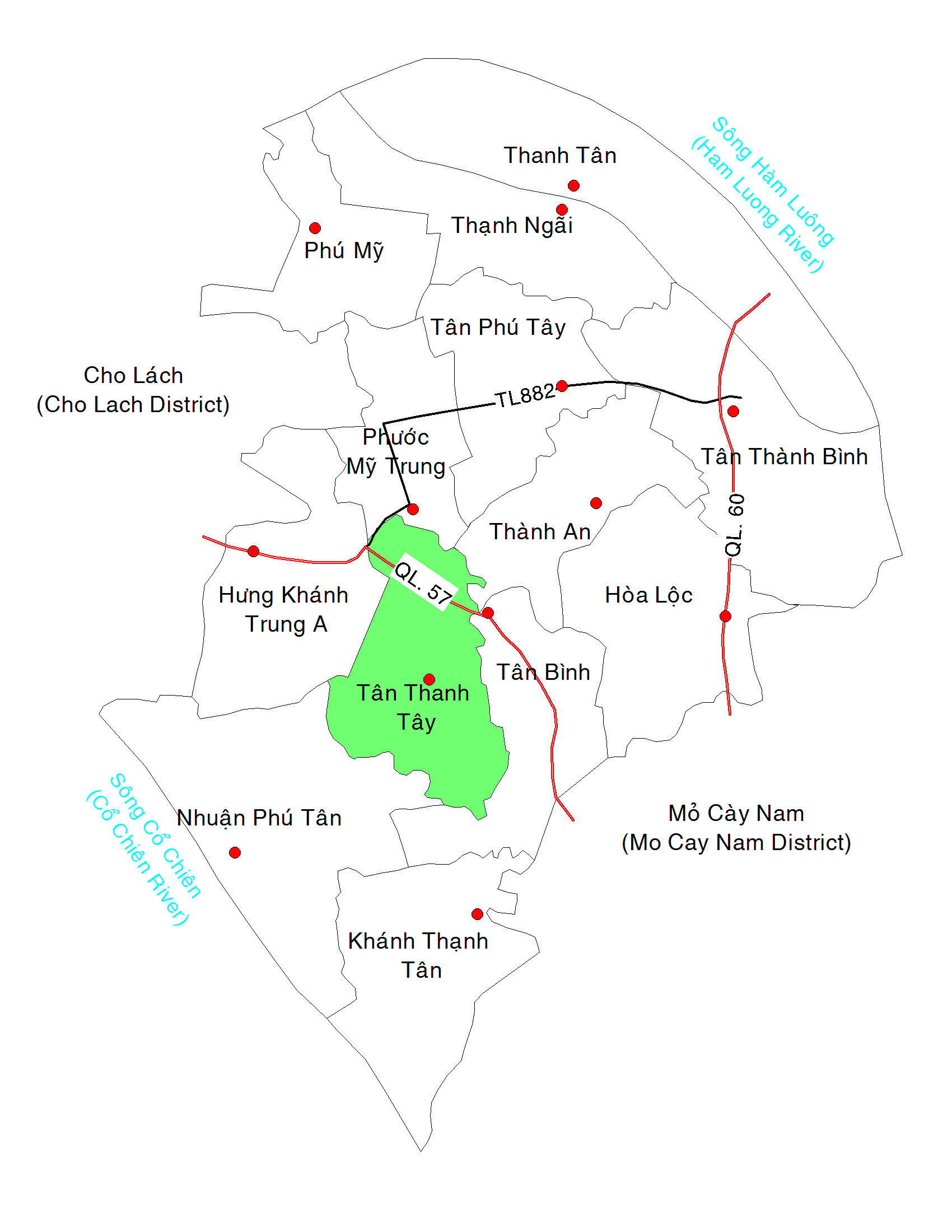 Locaiton map of Tân Thanh Tây commune, Mo Cay Bac District, Ben Tre province, Vietnam